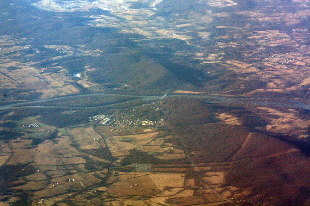 Oblique air photo of Point of Rocks, Maryland, facing southwest. Photo shows the Potomac River (flowing right to left), Heaters Island, and Catoctin Mountain. Takend Jan. 17, 2009. Color and contrast enhanced in Photoshop.